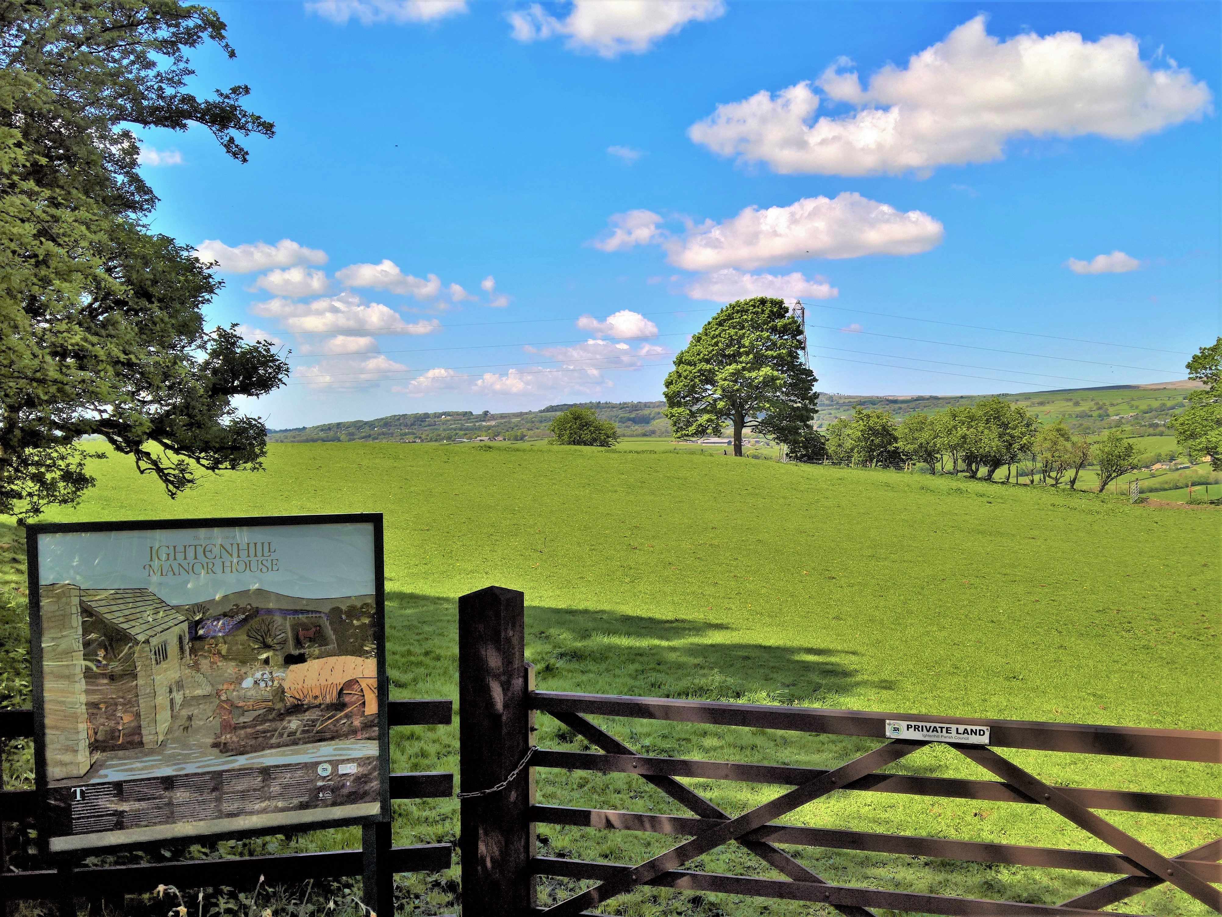 The site of Ightenhill Manor House on the edge of Burnley, Lancashire. The manor covered a much greater area than the civil parish, including all of the town of Burnley and much of the surrounding countryside. It is thought that in the early medieval period the manorial courts were held here. And it is known that King Edward II stayed here for several days in October 1323.